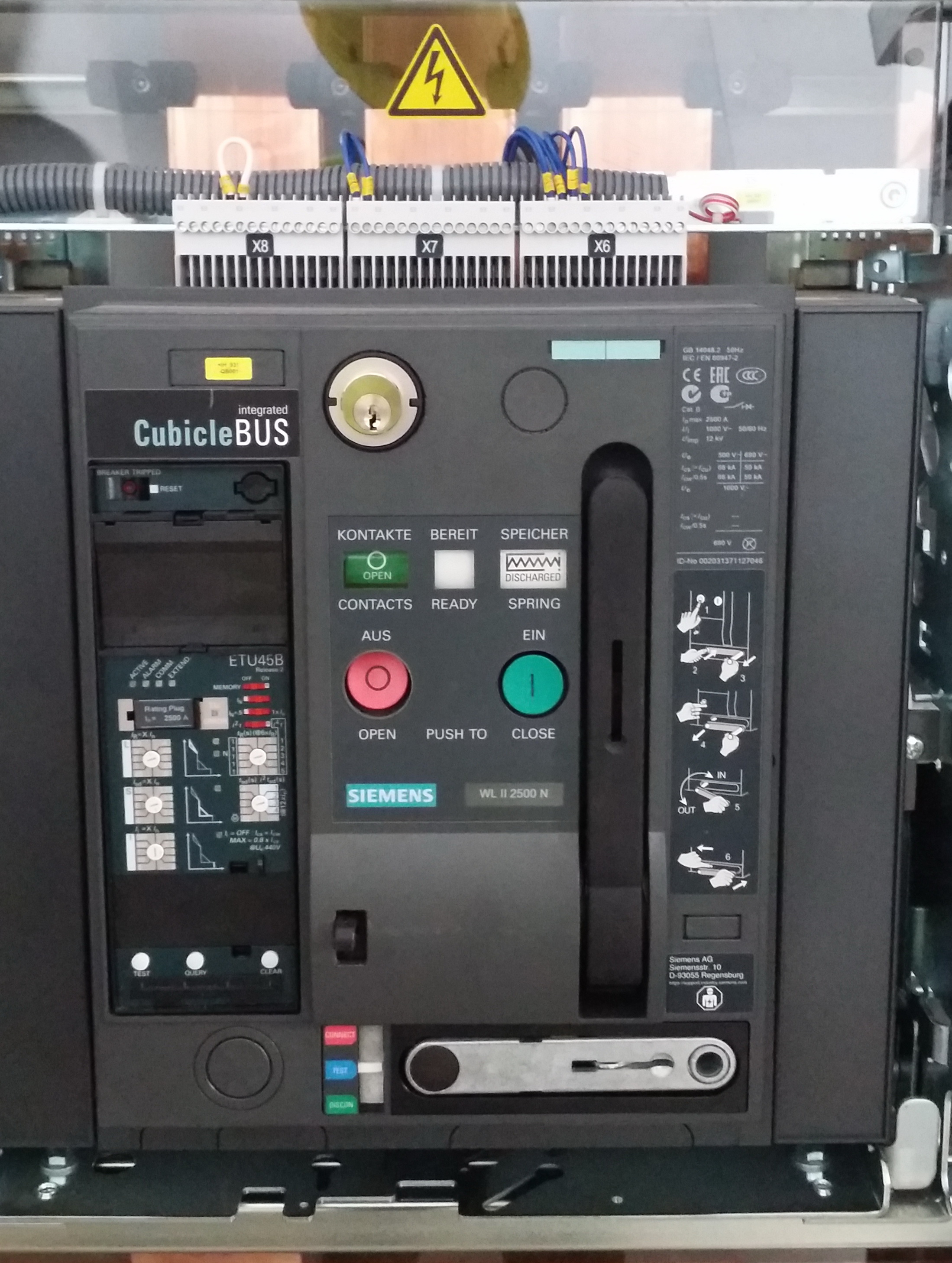 Siemens WL II 2500N air circuit breaker